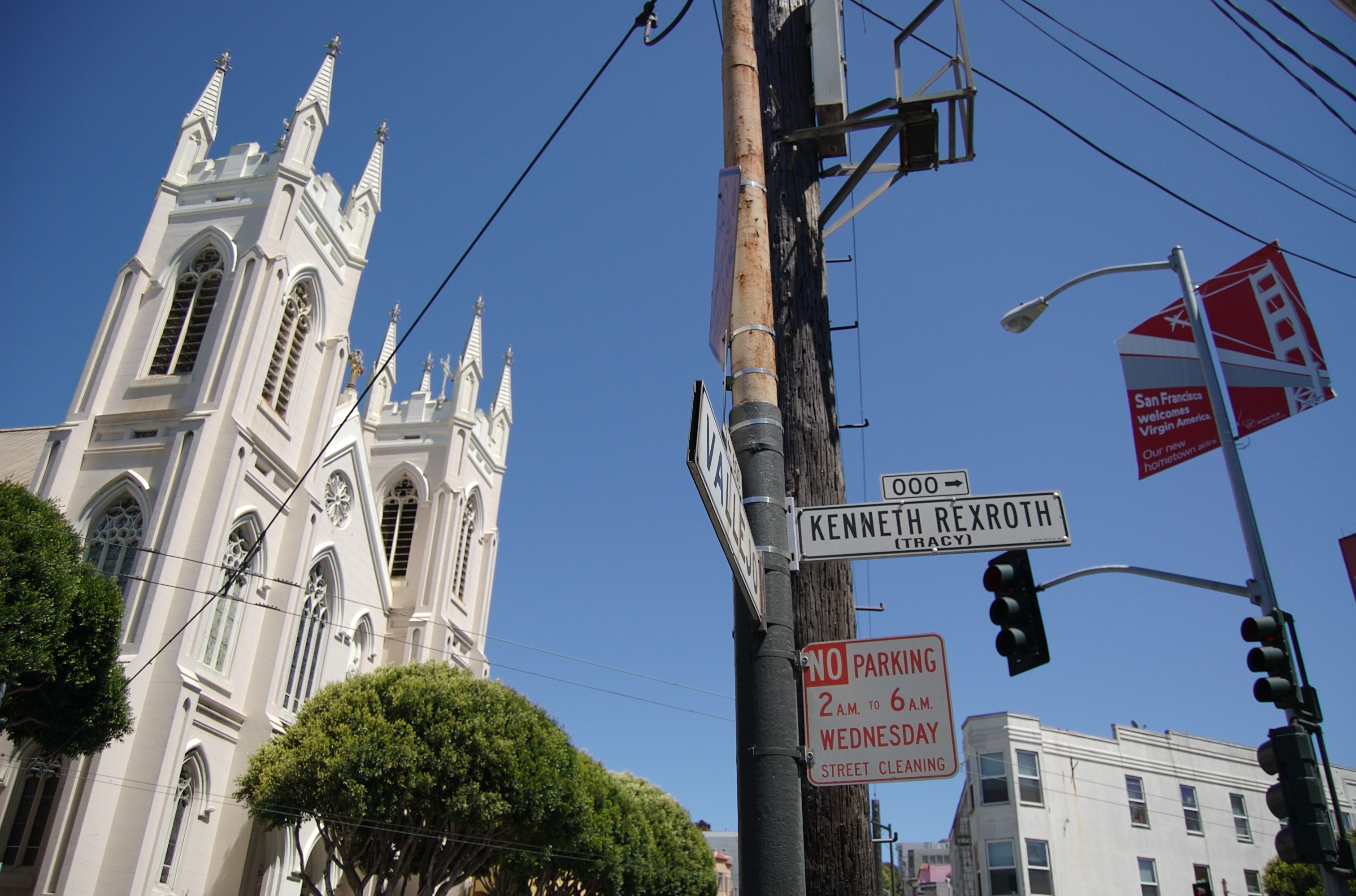 He's an American poet